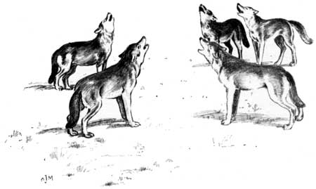 "All together" - Wolves howling